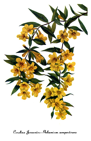 Watercolor painting of Gelsemium_sempervirens.